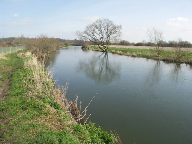 River Stour at Longham This is taken from the public footpath between Longham Bridge and Dudsbury.